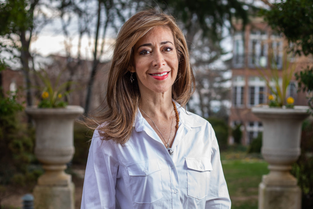 Chosen as an International Women of Courage in March 2020. Awards presented on 4 March 2020 - Ximena Galarza